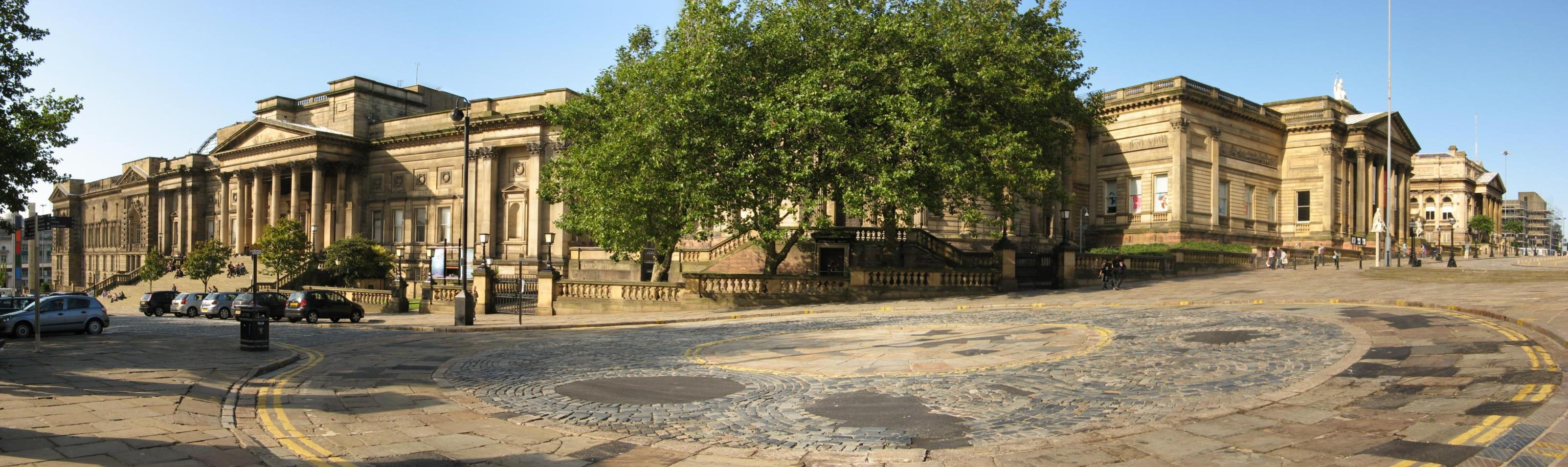 The "Cultural Quarter", Liverpool, England. From left: The City Library, World Museum, Walker Art Gallery, County Sessions House